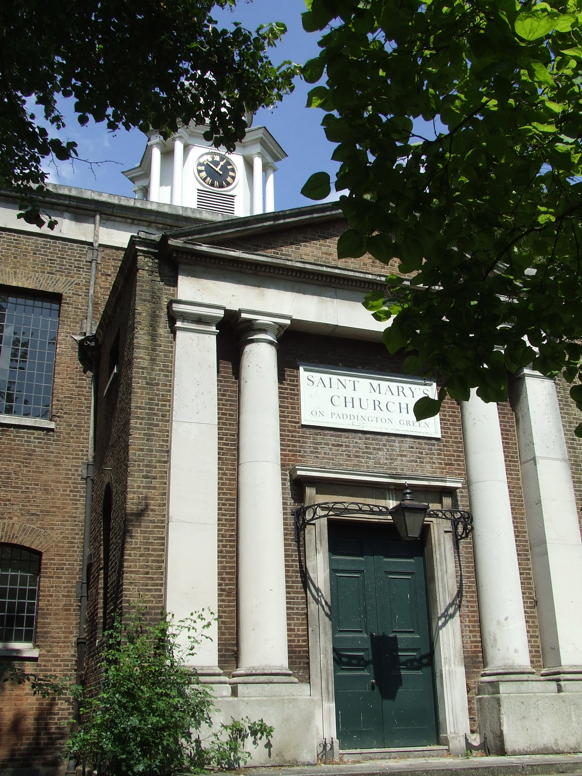 St Mary on Paddington Green Church, located in Paddington Green conservation area and built 1791 by John Plaw